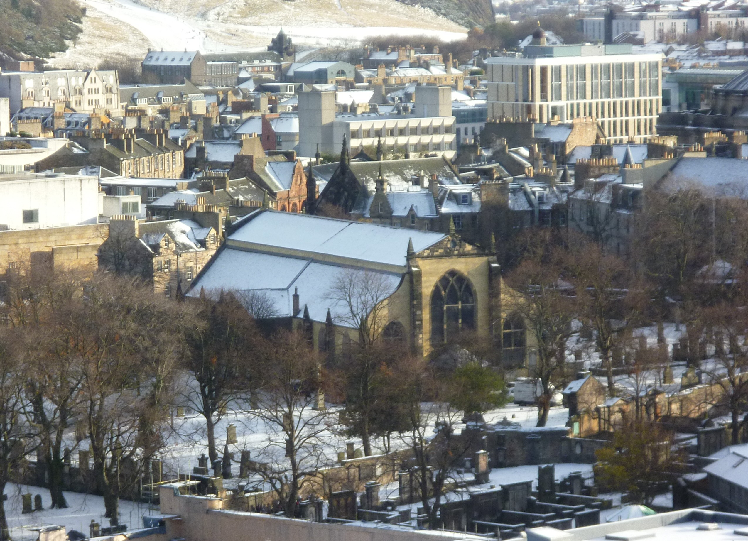 Greyfriars Kirk seen from Edinburgh Castle